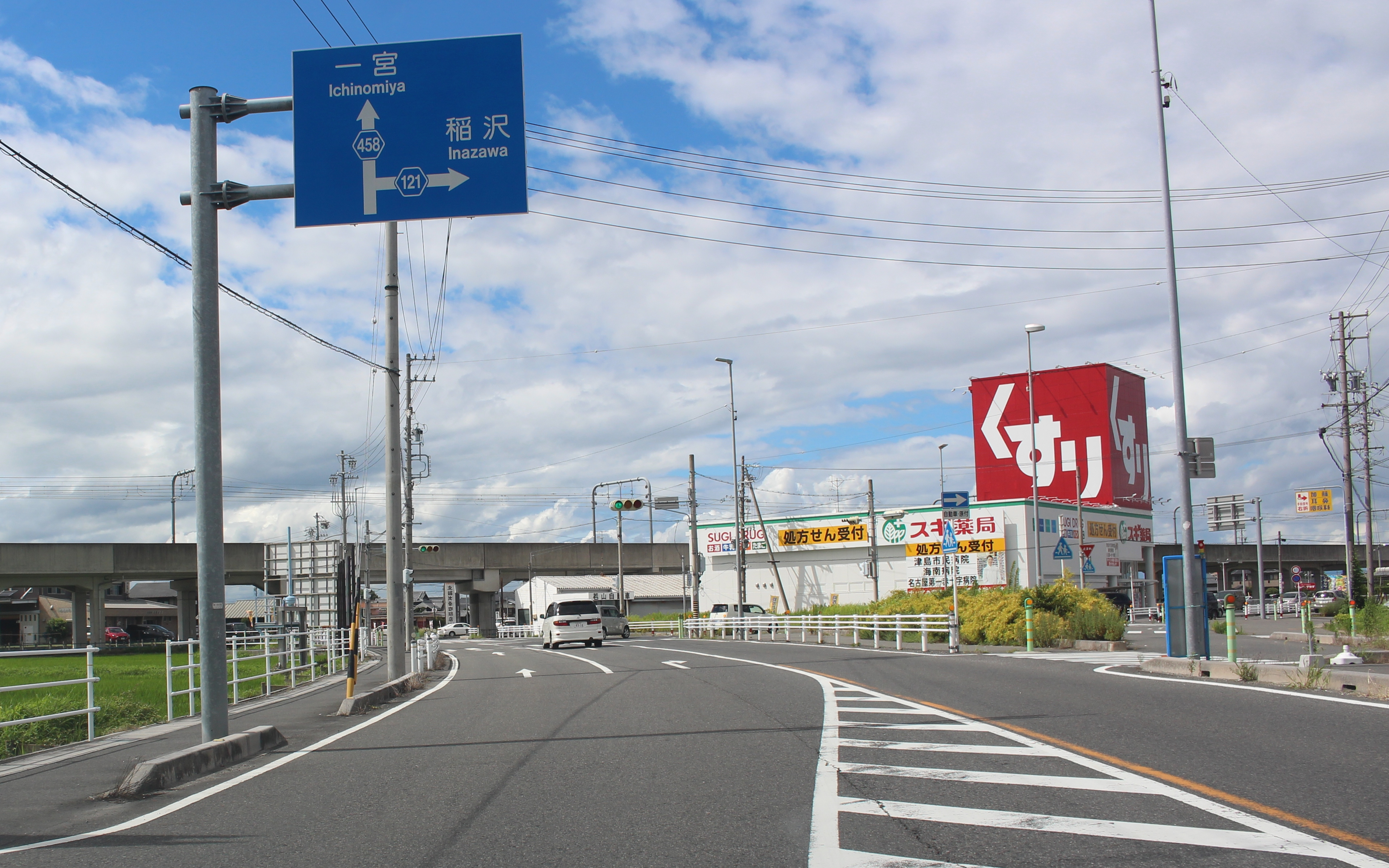 Aichi Prefectural Road Route 458 and Aichi Prefectural Road Route 121 in Teramaecho, Tsushima, Aichi Prefecture, Japan.